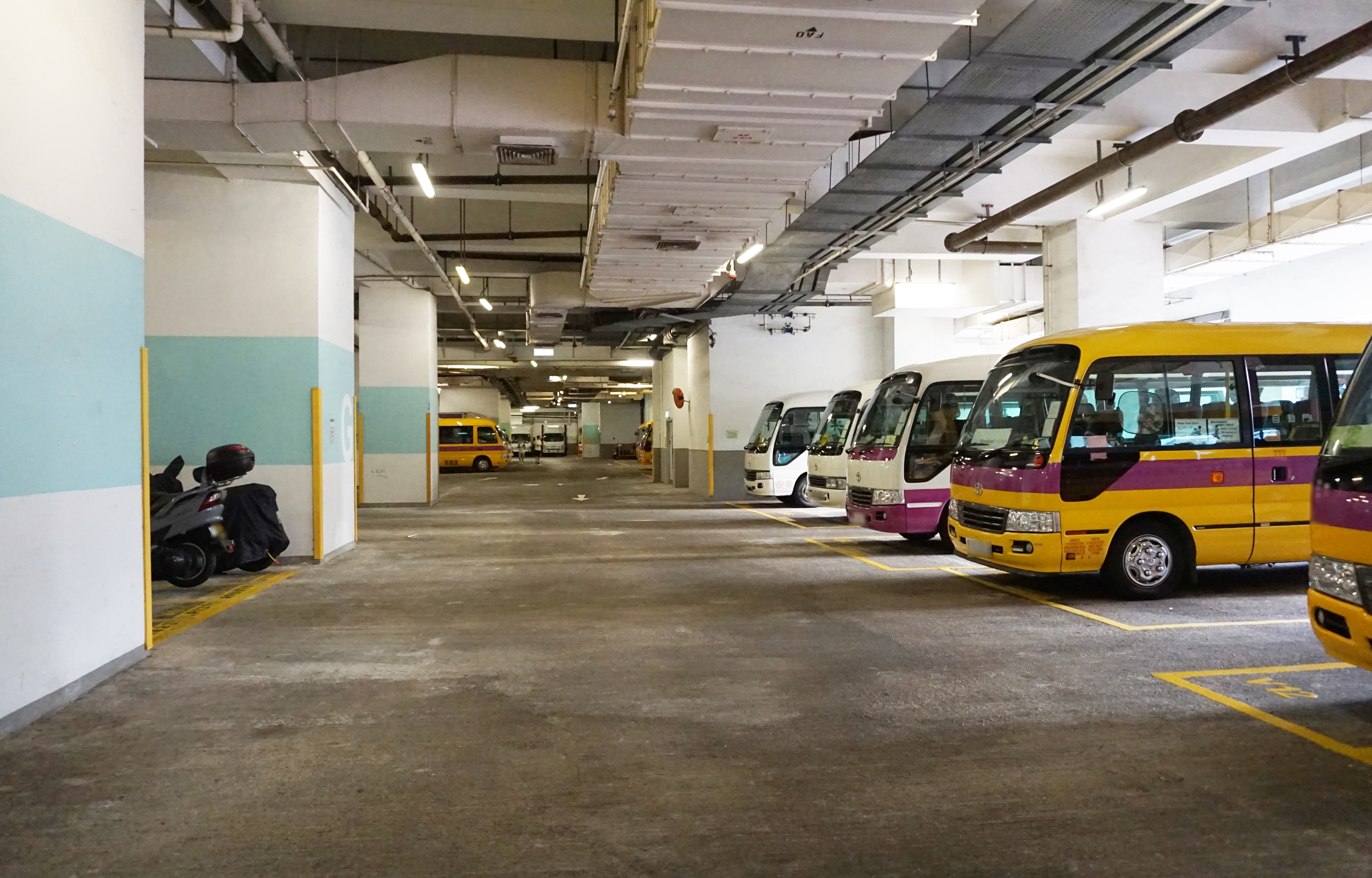 Shek Pai Wan Estate in Aberdeen, Hong Kong.